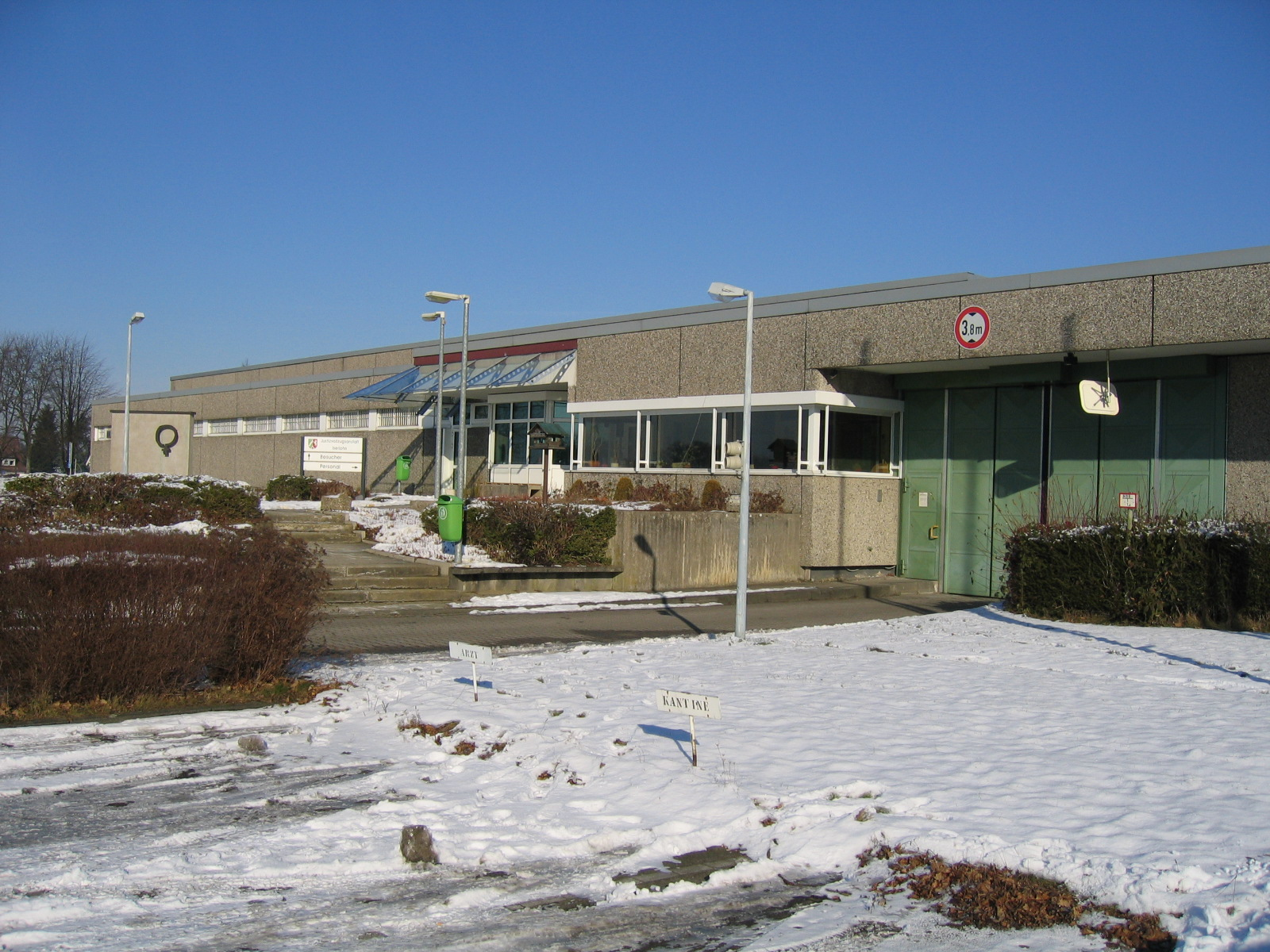 Description: Justizvollzugsanstalt Iserlohn Source: selbst fotografiert Date: 29. Jan. 2006 Author: Bubo